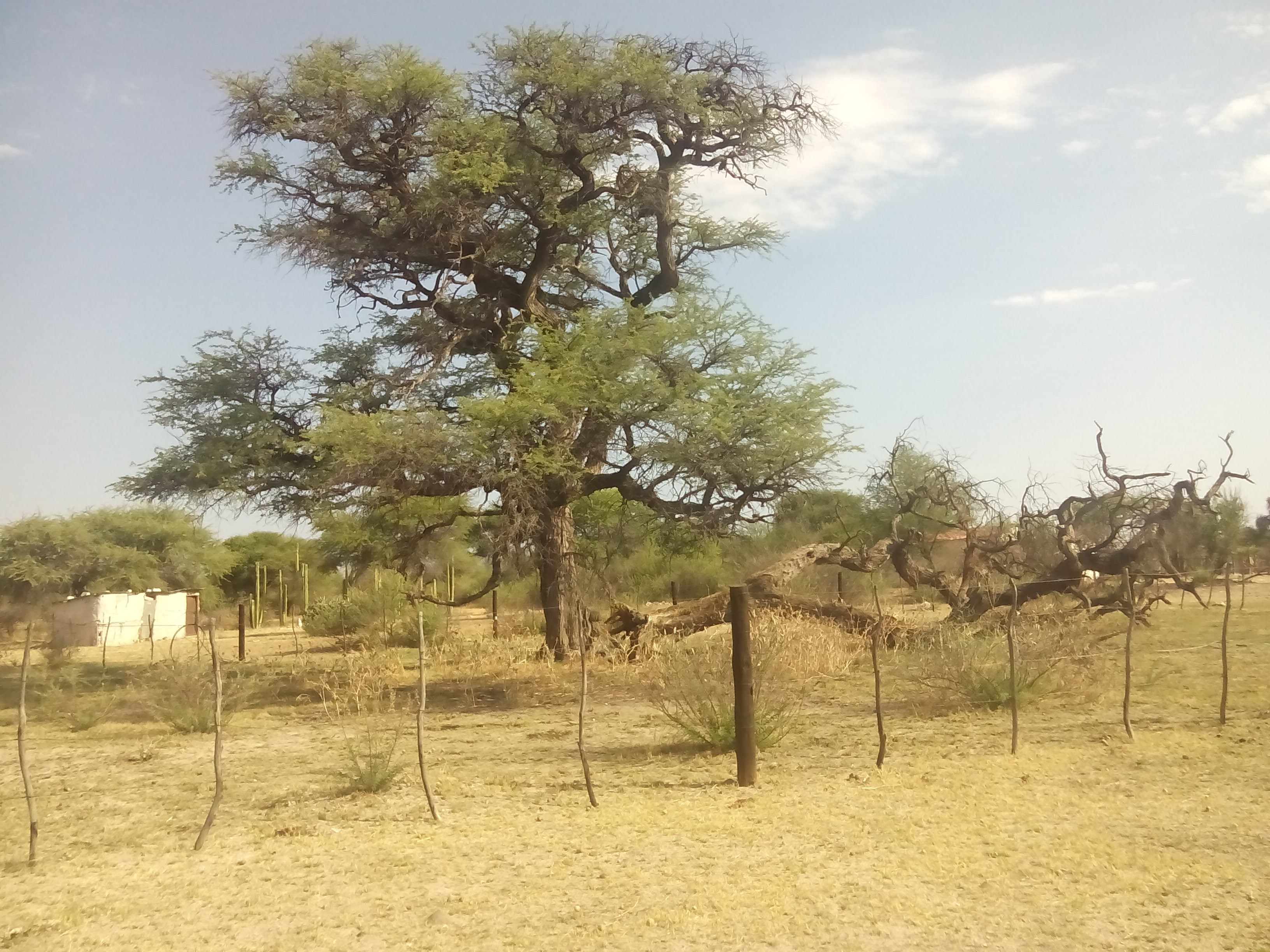 This is the tree where most of the Herere and Namaqua people were hanged in Otjinene during the revolt.